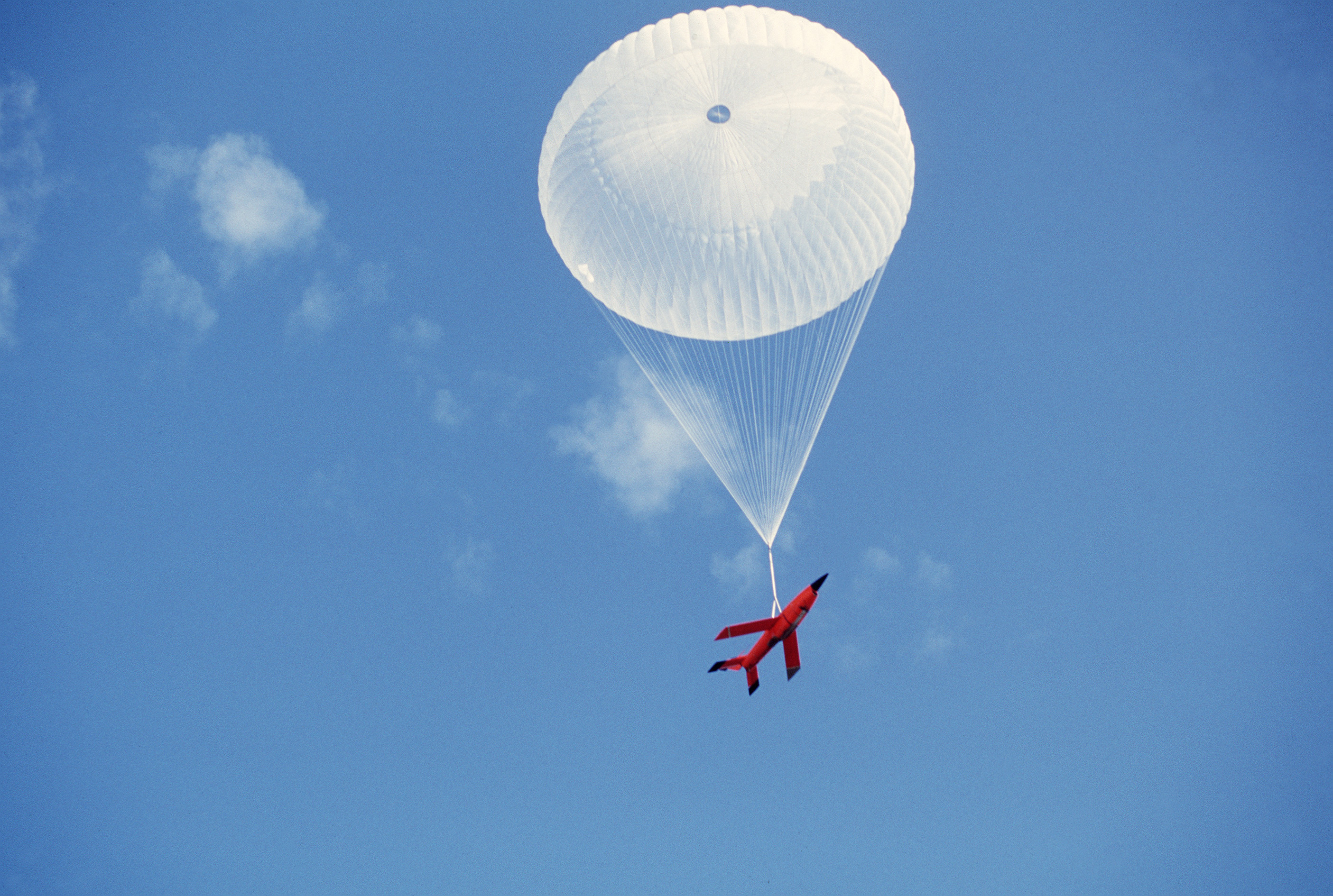 A Firebee drone returns to the ground by parachute after having served as a target for aircraft participating in the air-to-air combat training exercise William Tell '82. Location: TYNDALL AIR FORCE BASE, FLORIDA (FL) UNITED STATES OF AMERICA (USA)